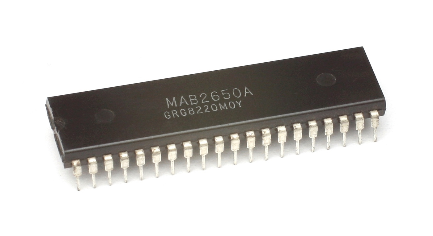 CPU Philips MAB2650 (= Signetics 2650)